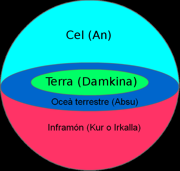 Summerian cosmology